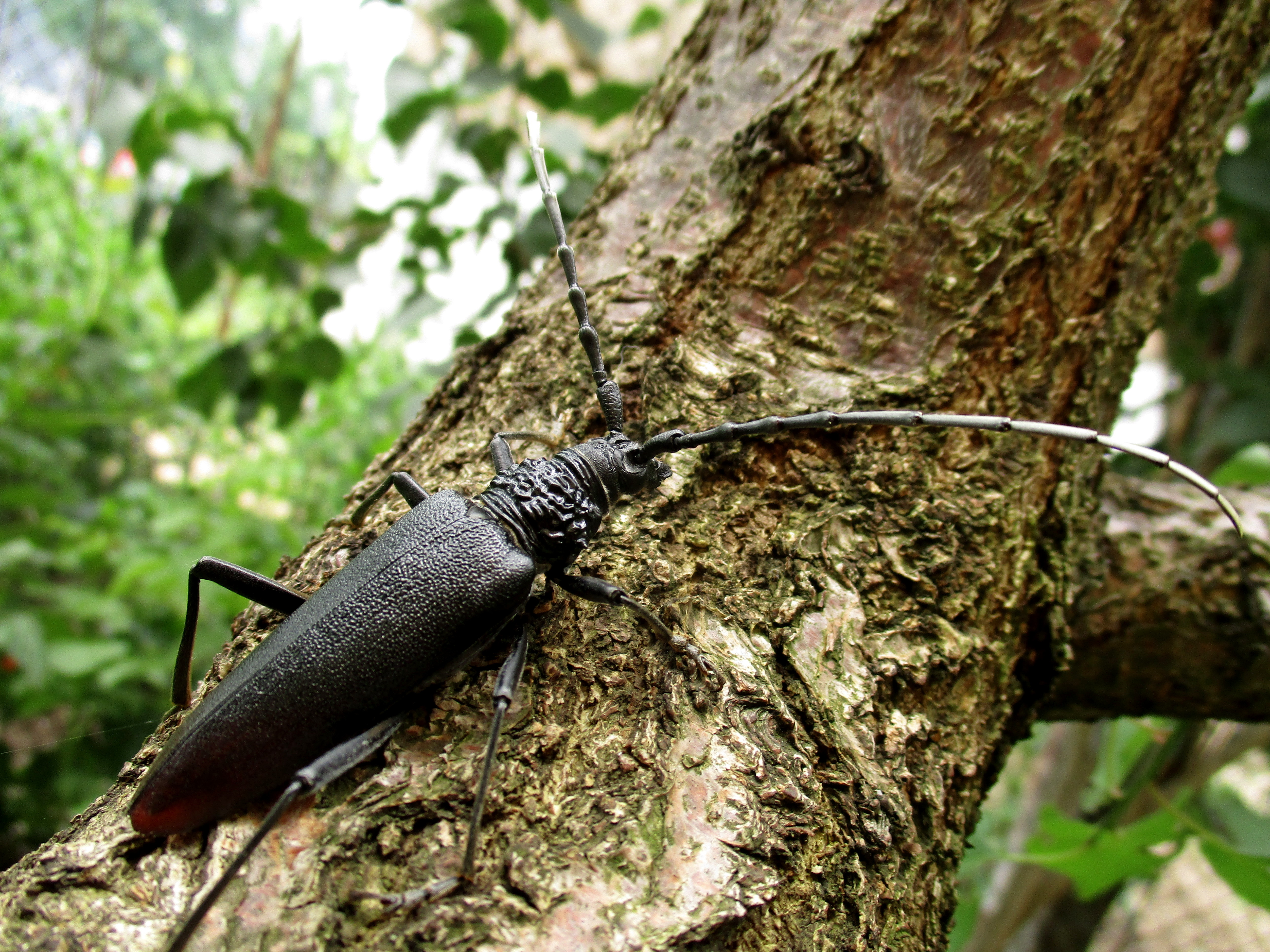 It's one of the biggest beetles in Bulgaria.